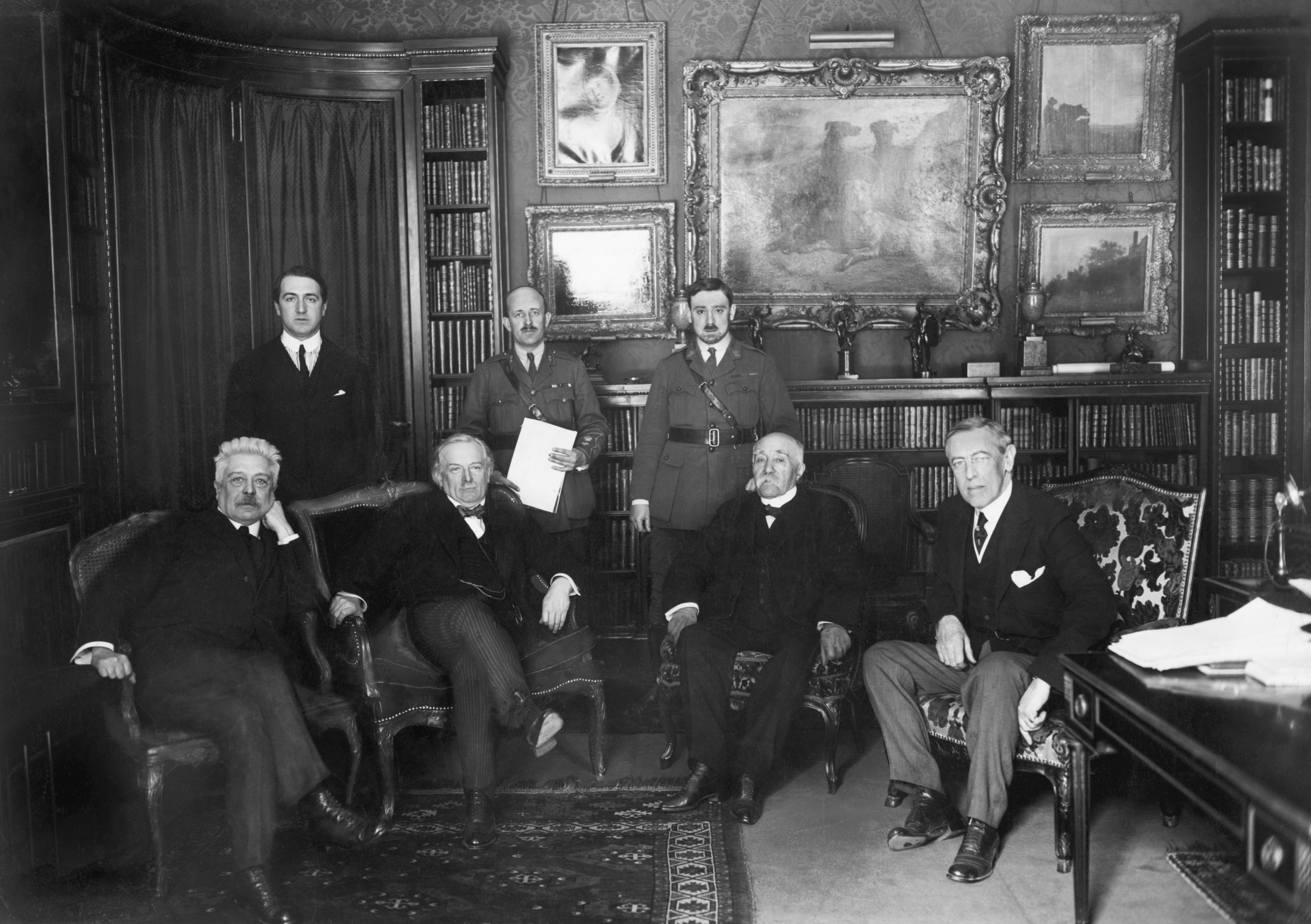 Big Four (World War I) in 1919 in Paris. Vittorio Orlando (Italy), David Lloyd George (Britain), Georges Clemenceau (France), Woodrow Wilson (USA) (left to right)